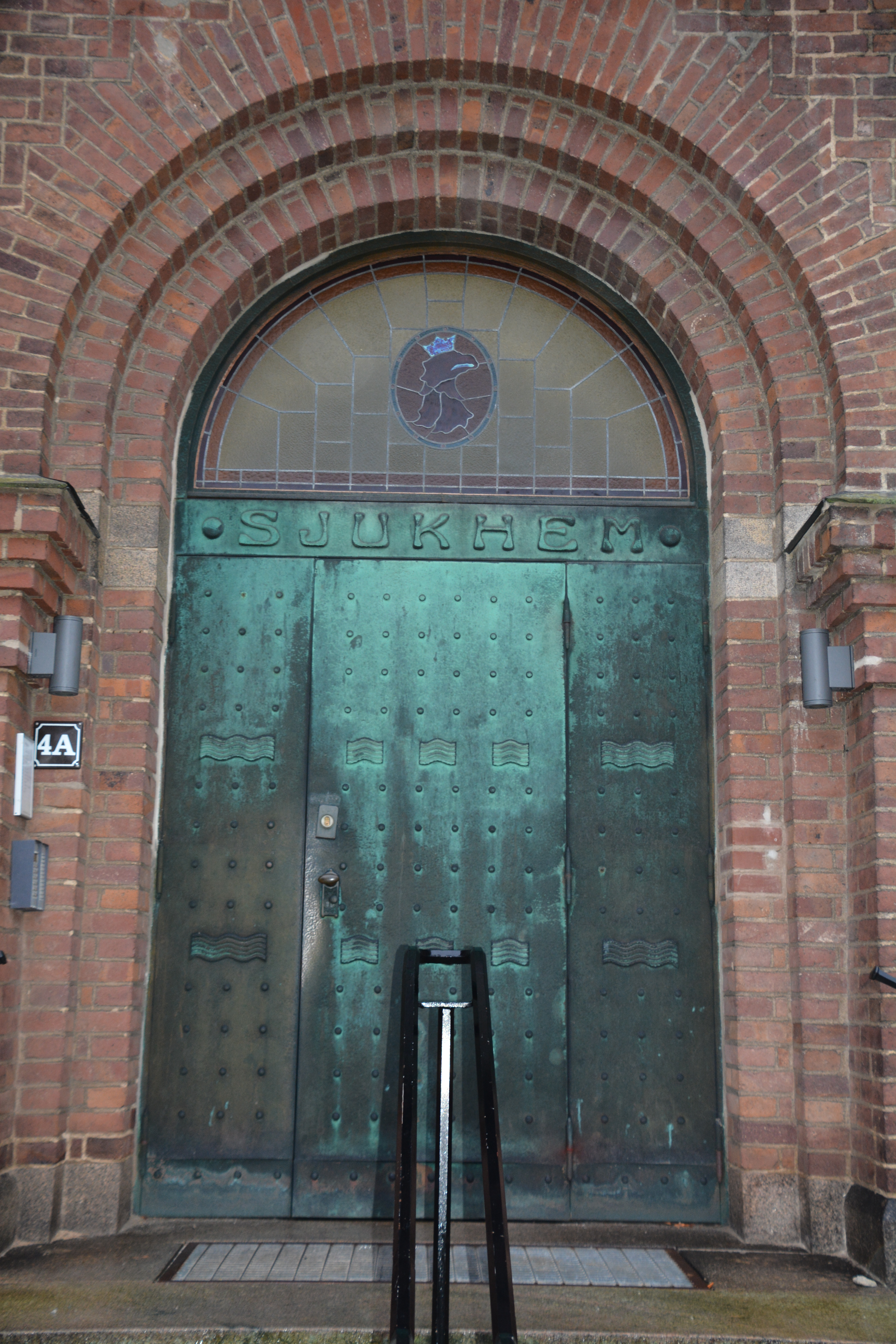 Ribbingska sjukhemmet, Lund